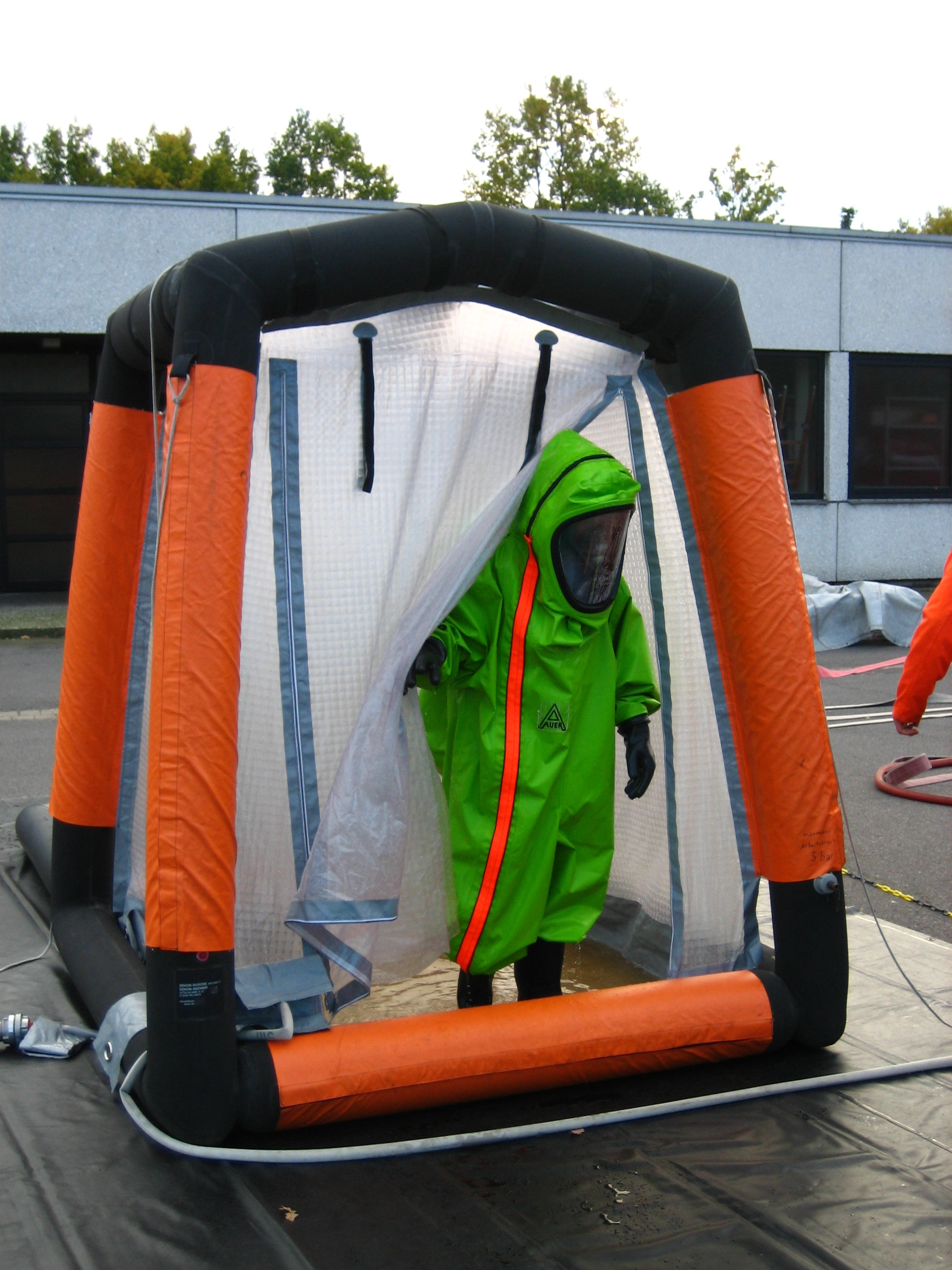 Decontamination of a chemical protective suit-carrier during the course NBC Part 2 in Niedersächsische Landesfeuerwehrschule Celle, Germany.